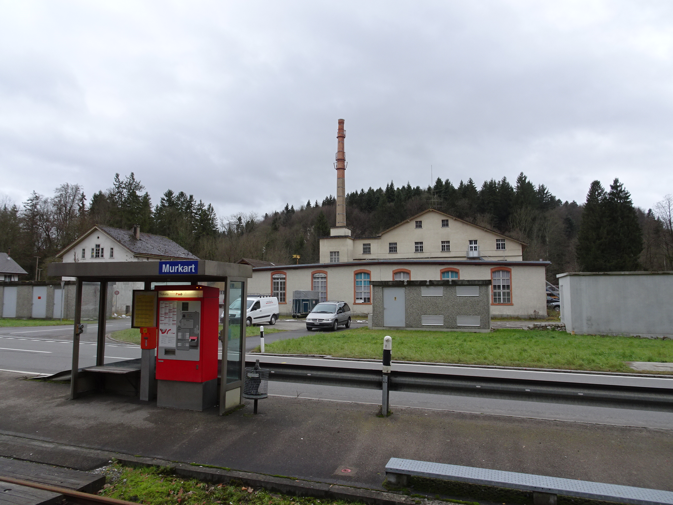 View of the Murkart area, with Murkart station on the Frauenfeld–Wil railway in the foreground